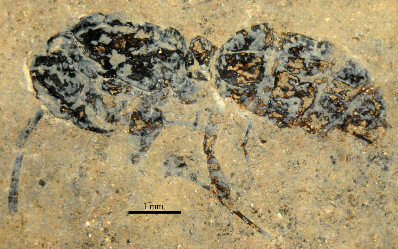 Pseudectatomma eocenica holotype, lateral view of reproductive female. Specimen number SMFMEI400